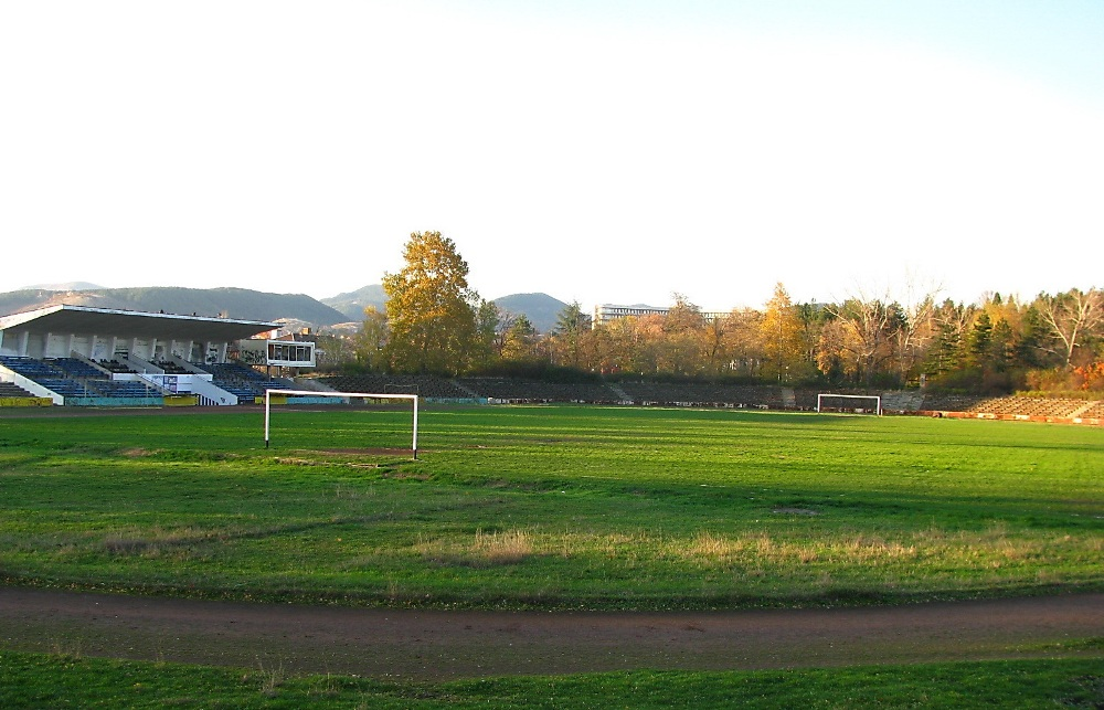 Druzhba Stadium Kardzhali